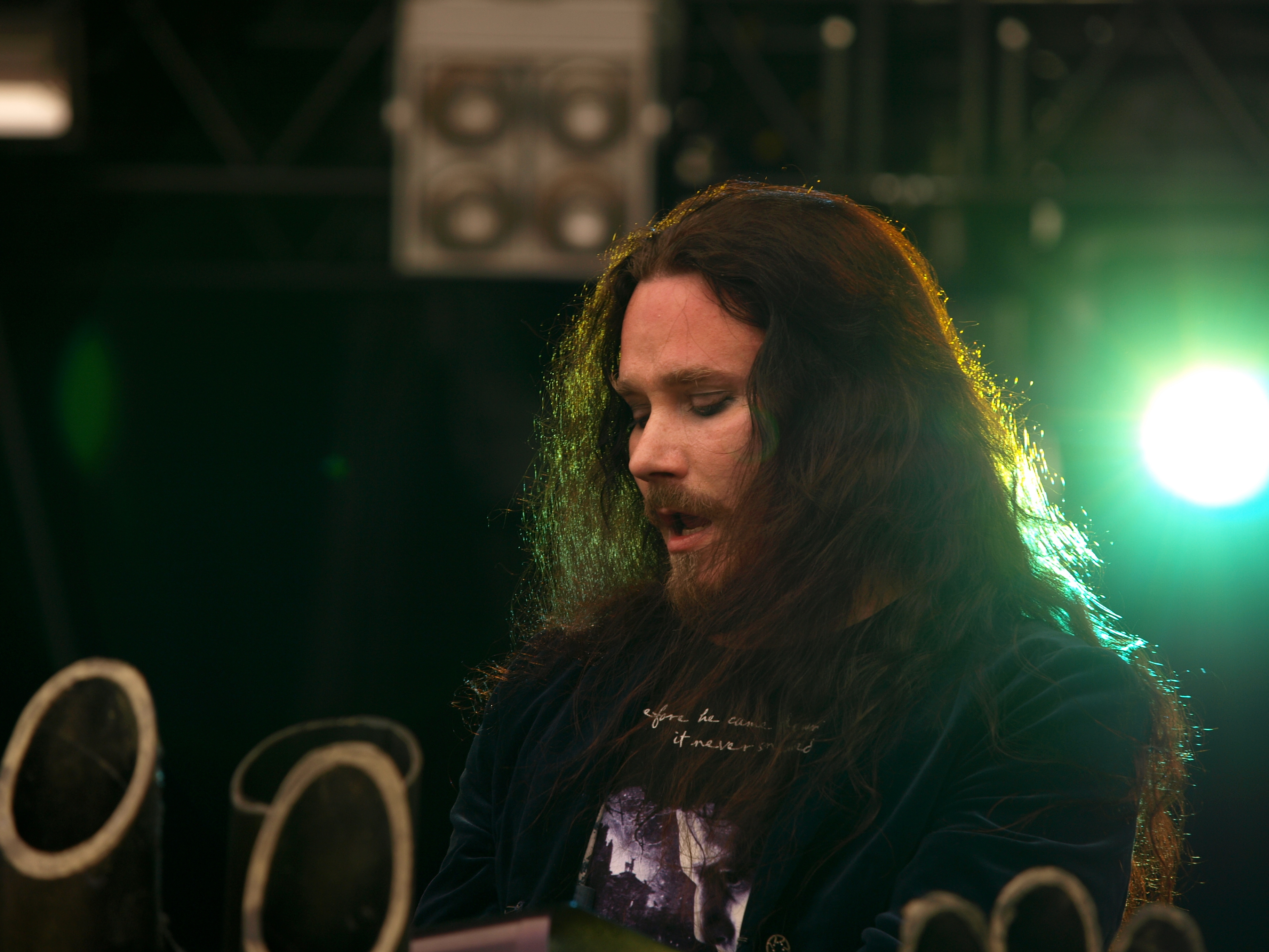 Finnish band Nightwish at Tuska Open Air 2013